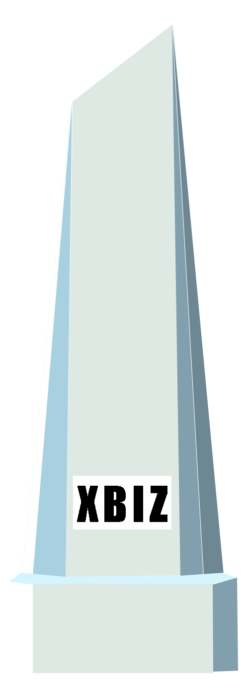 Graphic artwork representing a "XBIZ Awards" trophy